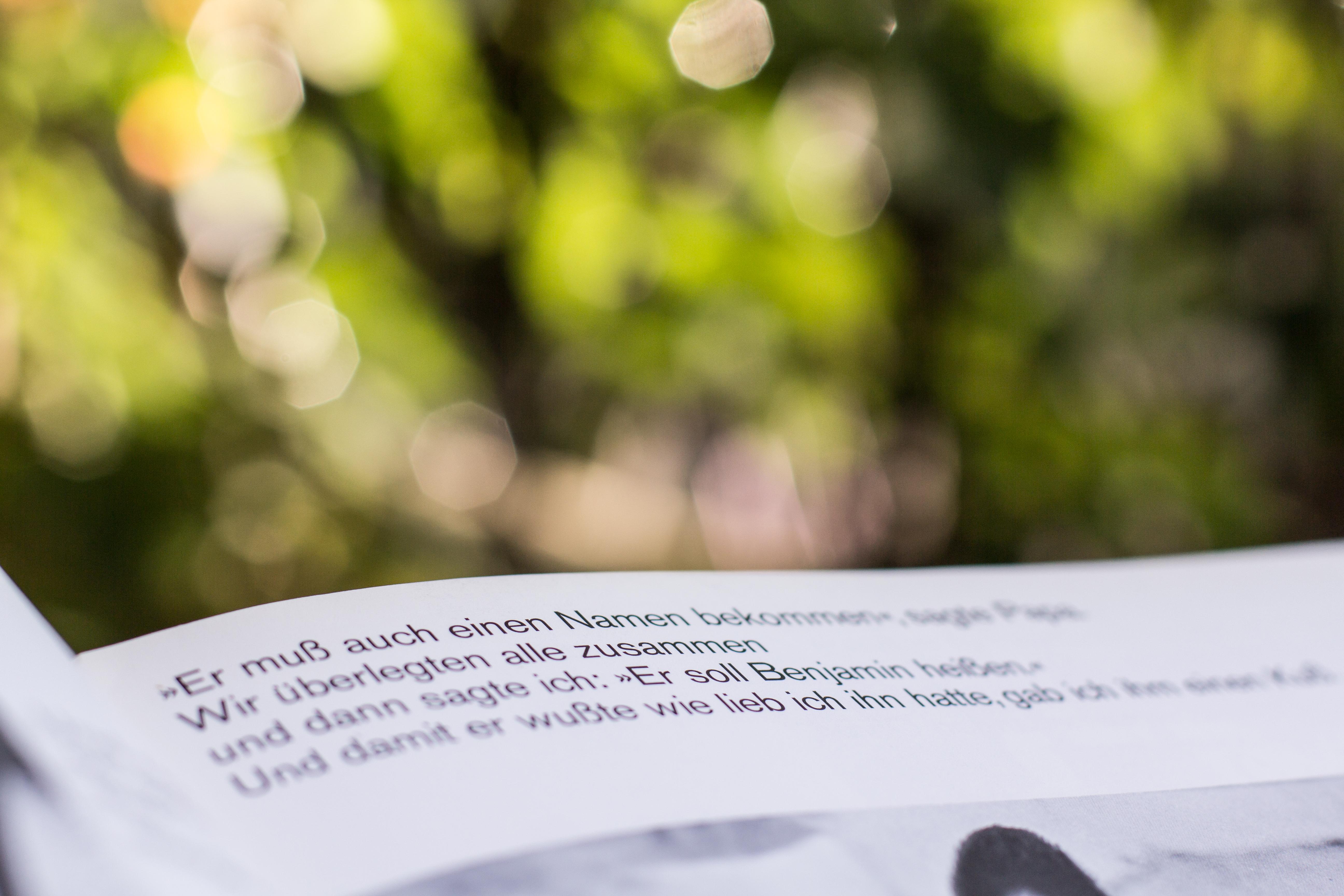 Title of „Mein Esel Benjamin“ (My donkey Benjamin), German children's book of 1968, typography